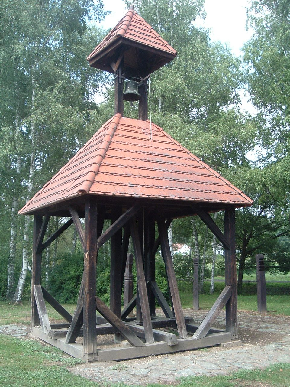 The Bell-tower in Nemesmedves